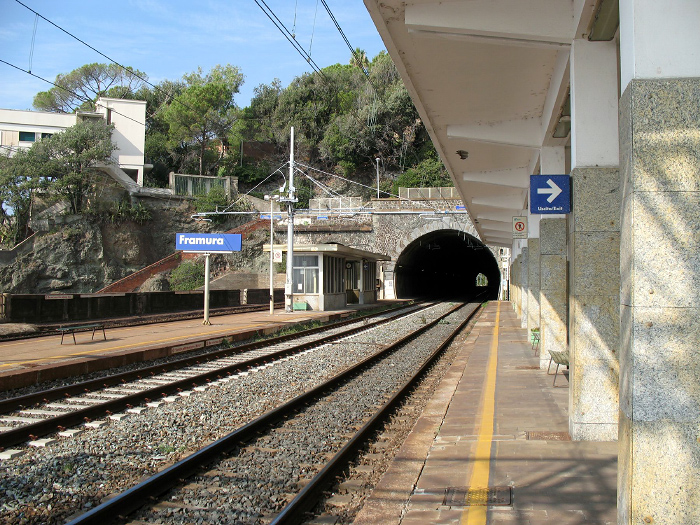 The train-station of Framura